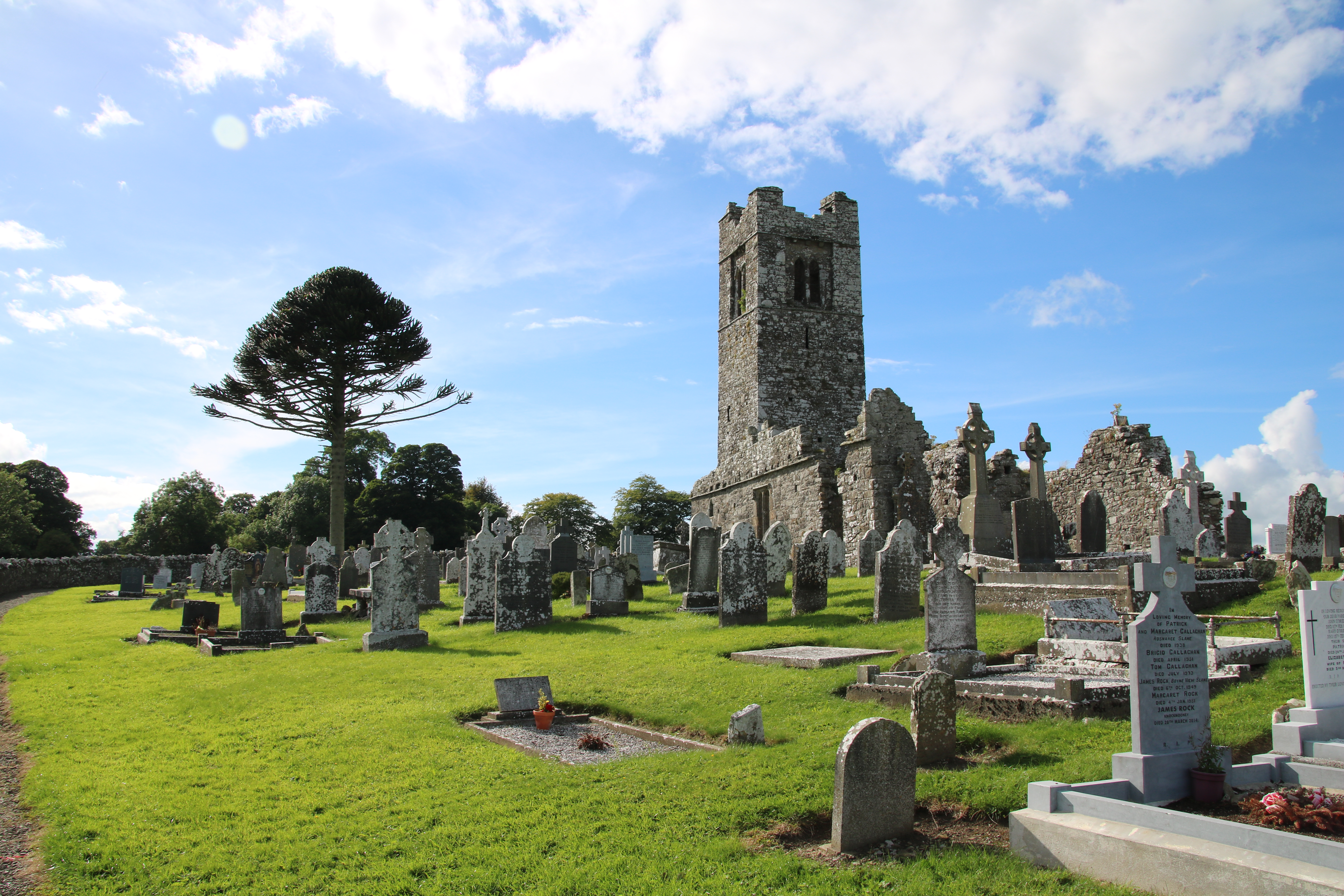 A view of the old church and graveyard on the site of the Hill of Slane on a sunny summers day